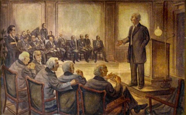 picture at the foyer